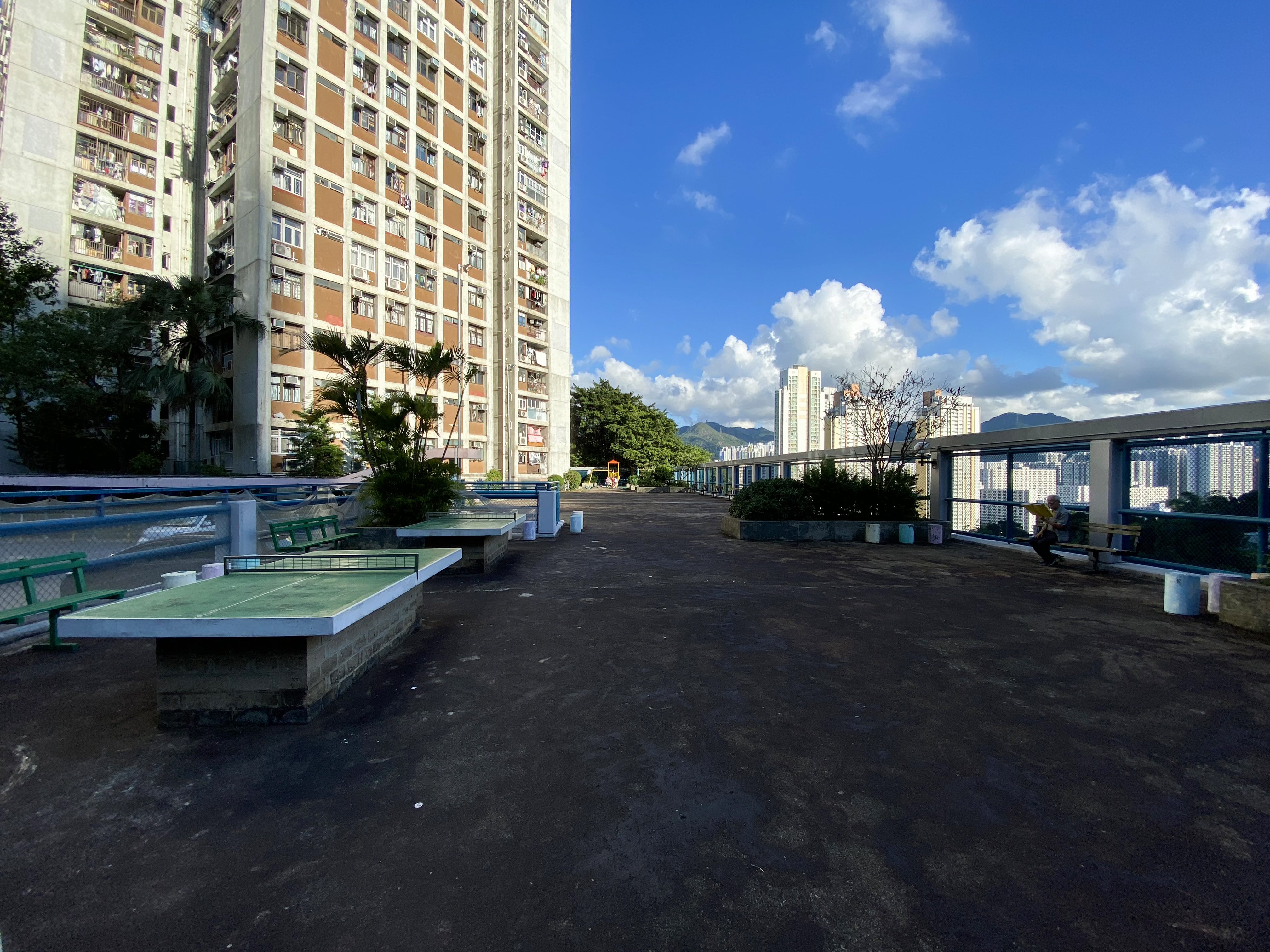 Sui Wo Court Phase 1 open space